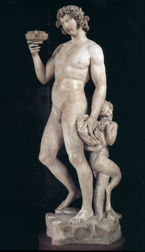 Michelangelo — Bacchus. Museo del Bargello, Florence, Italy. (Bacchus with Pan)